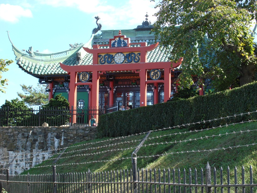 Marble House mansion - Tea House - Jeanpaul Ferro Sept 2007